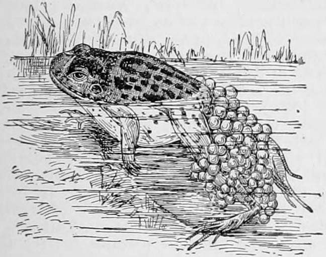 Drawing of Alytes obstetricans (midwife frog; obstetrical toad) in pond with eggs attached to its legs